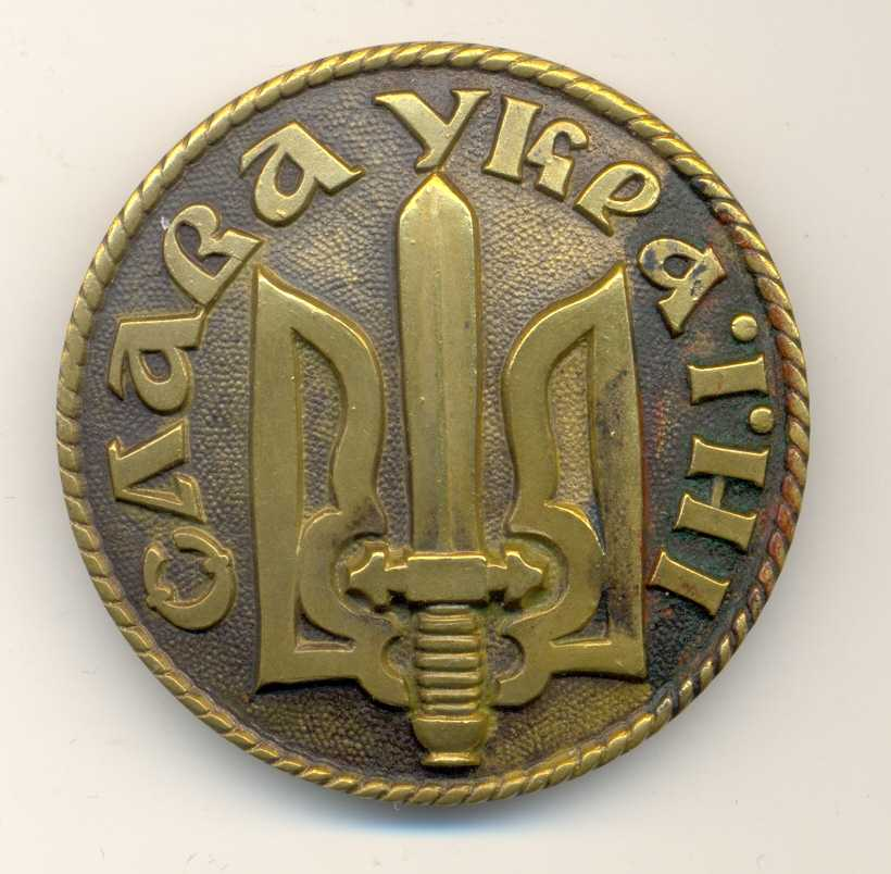 Front side of badge of "Military Groups of Nationalsts" (ua "Військові відділи націоналістів", deutsch "Bergbauernhilfe") - military units in the Wehrmacht, operating in Poland in 1931-1941 (during WWII)